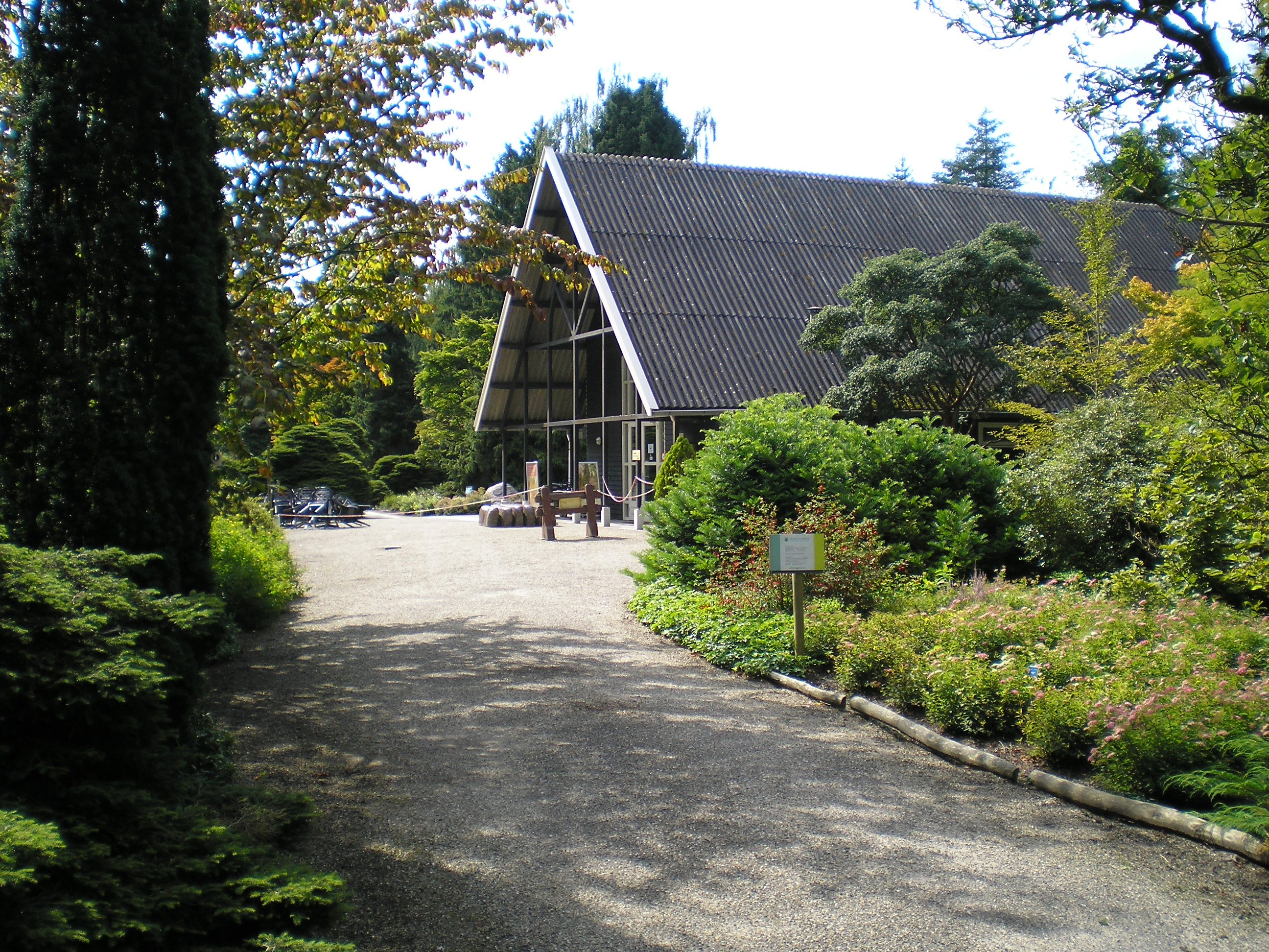 Von Gimborn Arboretum at Velperengh 13 in Doorn in the Netherlands